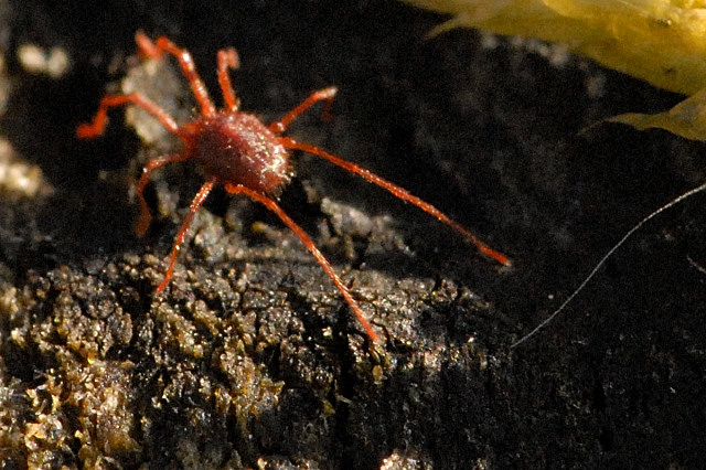 Bryobia praetiosa from Commanster, Belgian High Ardennes .